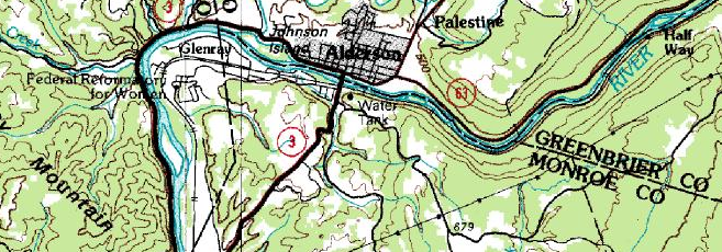 USGS topographic map of the Federal Prison Camp, Alderson in West Virginia